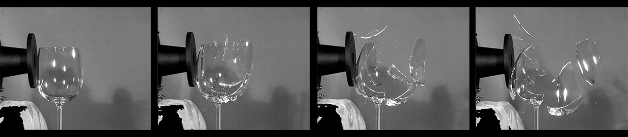 Using resonance to break a wine glass